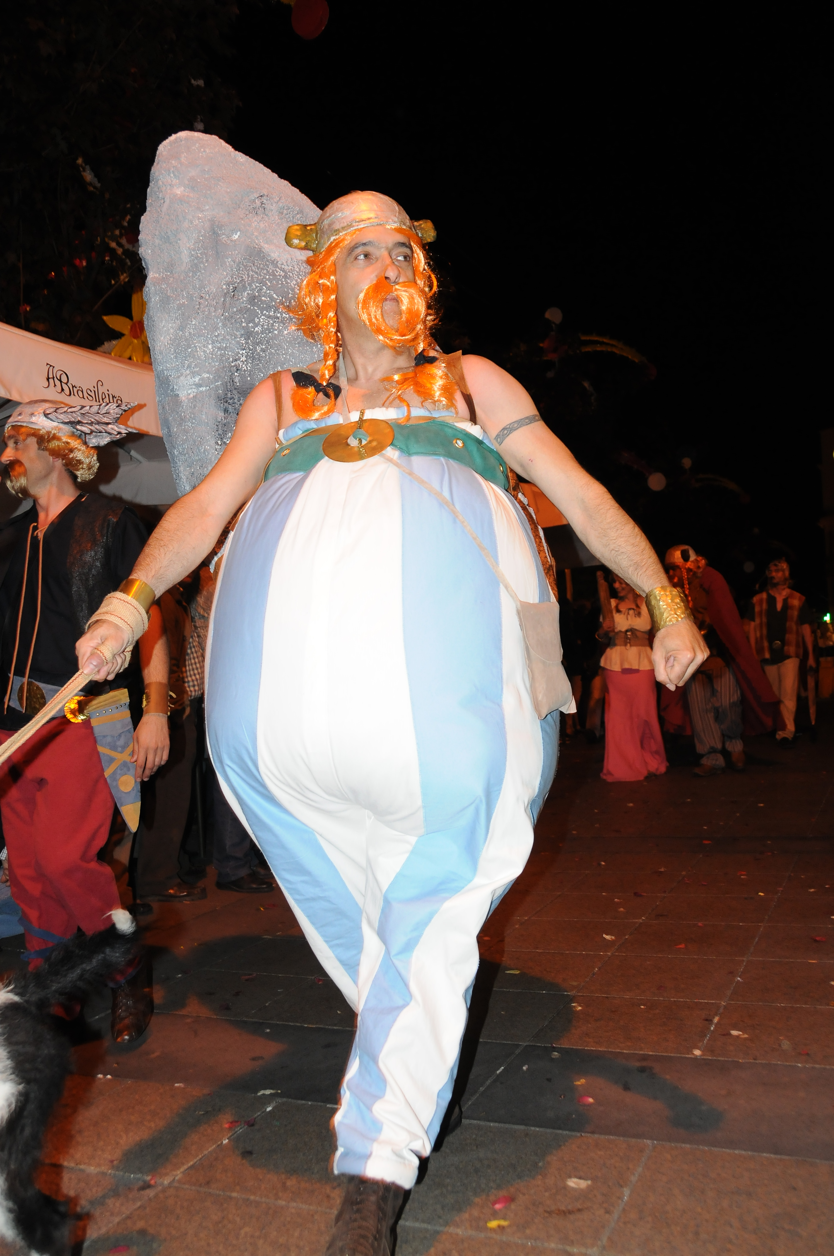 An actor dressed as Obelix in Roman Market, Braga, Portugal.